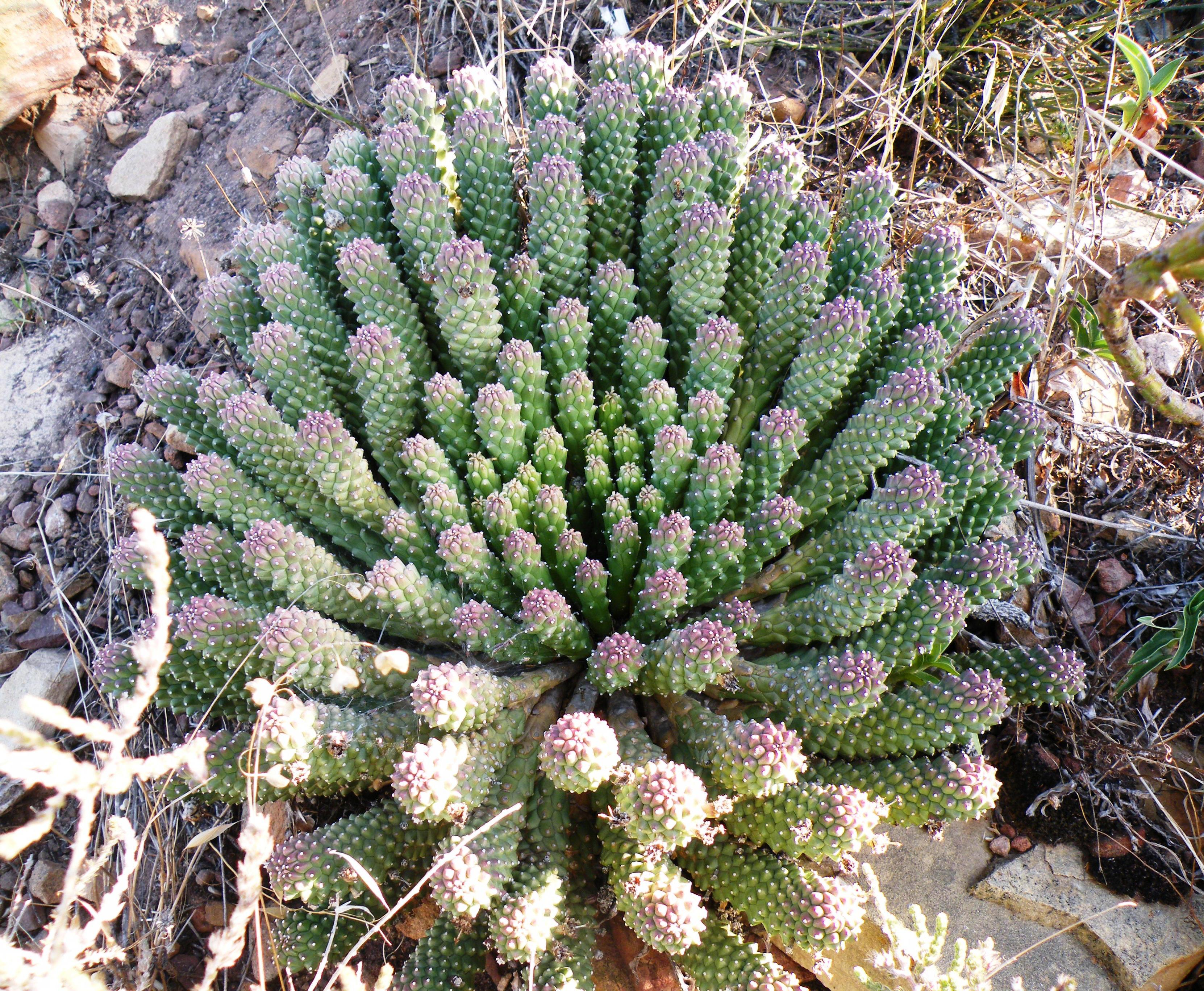 Euphorbia caput-medusae. The Medusas Head Euphorbia from Cape Town. Photo taken on Table Mountain.